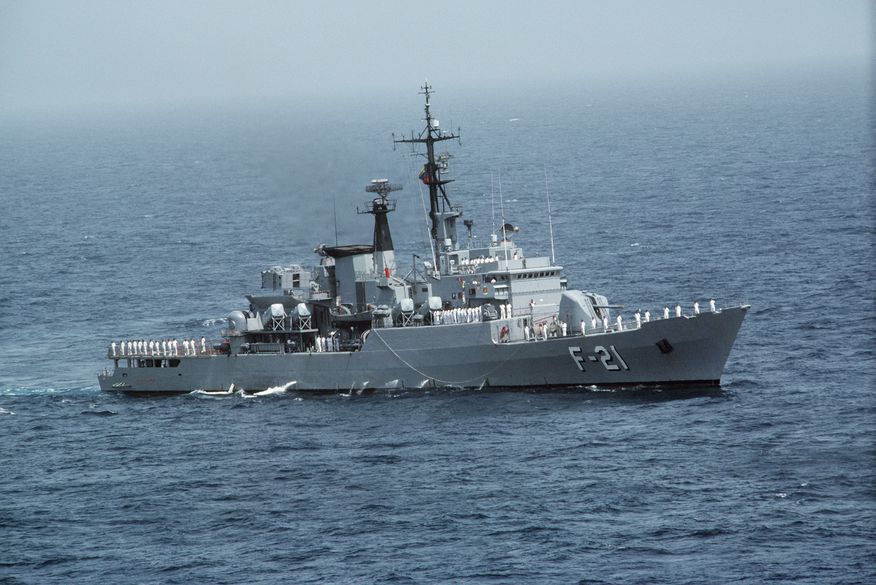 A starboard bow view of the Venzuelan frigate MARISCAL SUCRE (F 21) underway. The vessel is transporting Venezuelan officials.